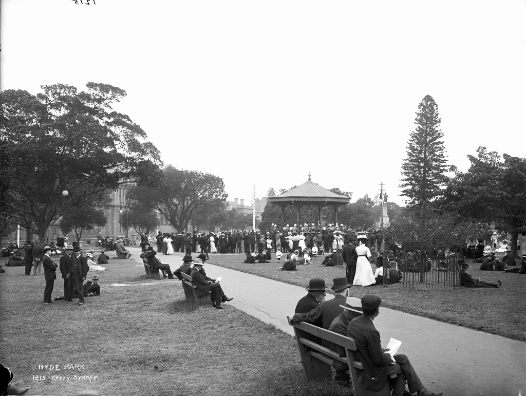 'Sydney City' Pictures from The Powerhouse Museum This files was posted to Flickr by The Powerhouse Museum (See their website for further information). Many thanks to the Powerhouse Museum for helping release this wonderful material. This tag does not indicate the copyright status of the attached work. A normal copyright tag is still required. See Commons:Licensing for more information.